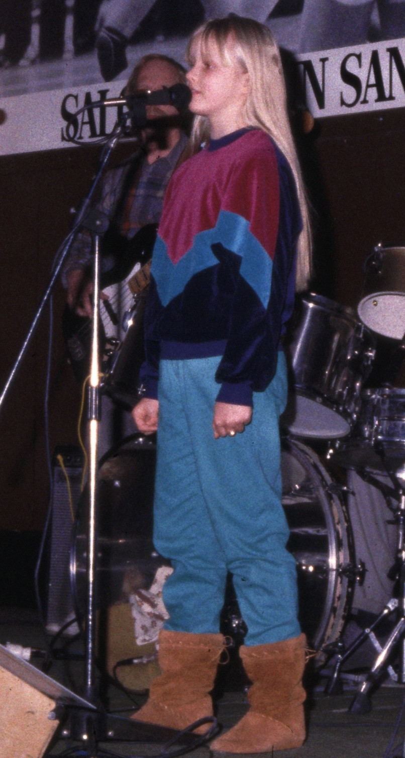 Jonna Tervomaa singing after her winning